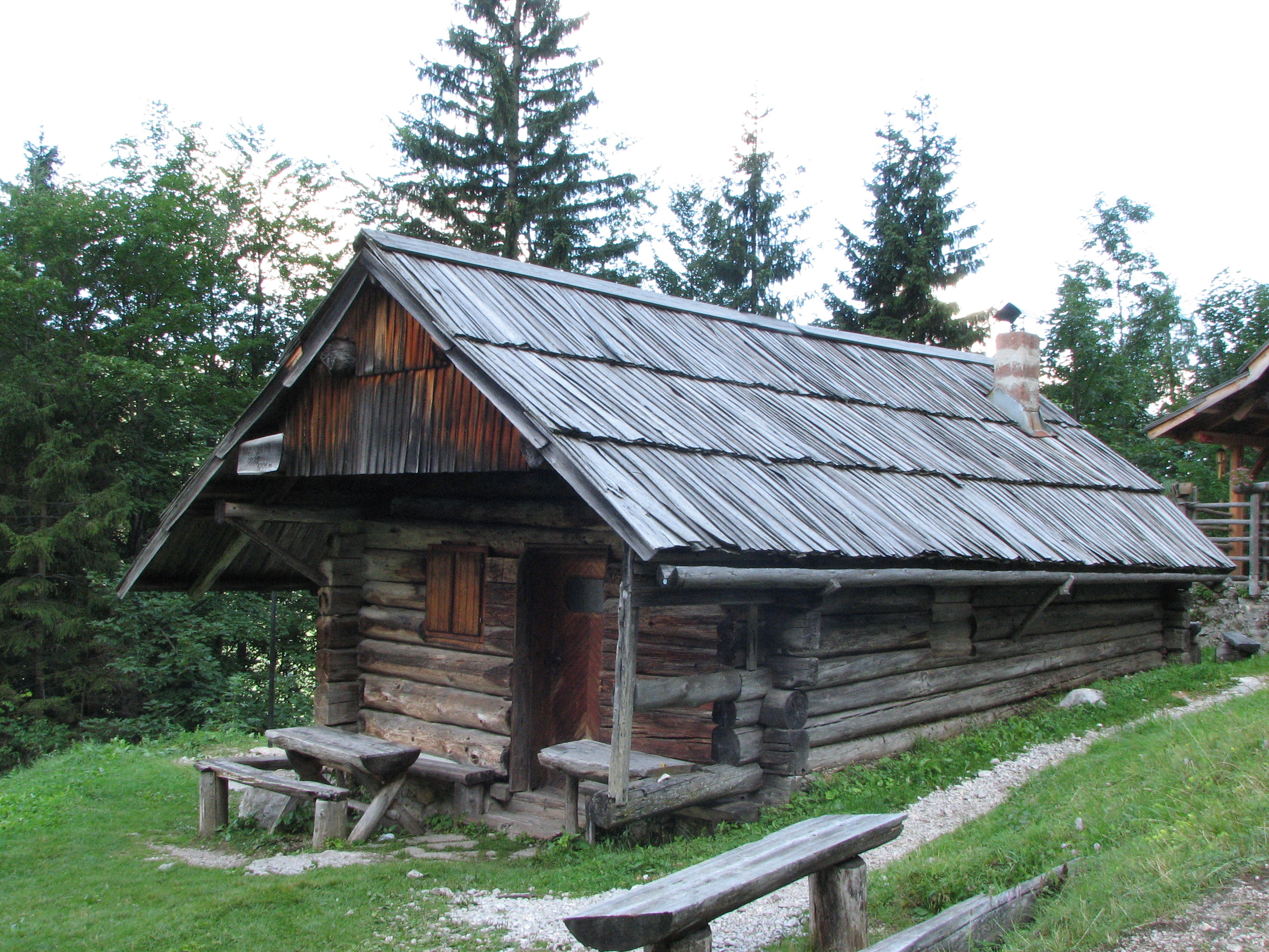 Koča na Klemenči jami under the northern face of Ojstrica (Kamnik Alps) is the oldest alpine hut in Slovenia. It has been built 1832 and renewed 1954.